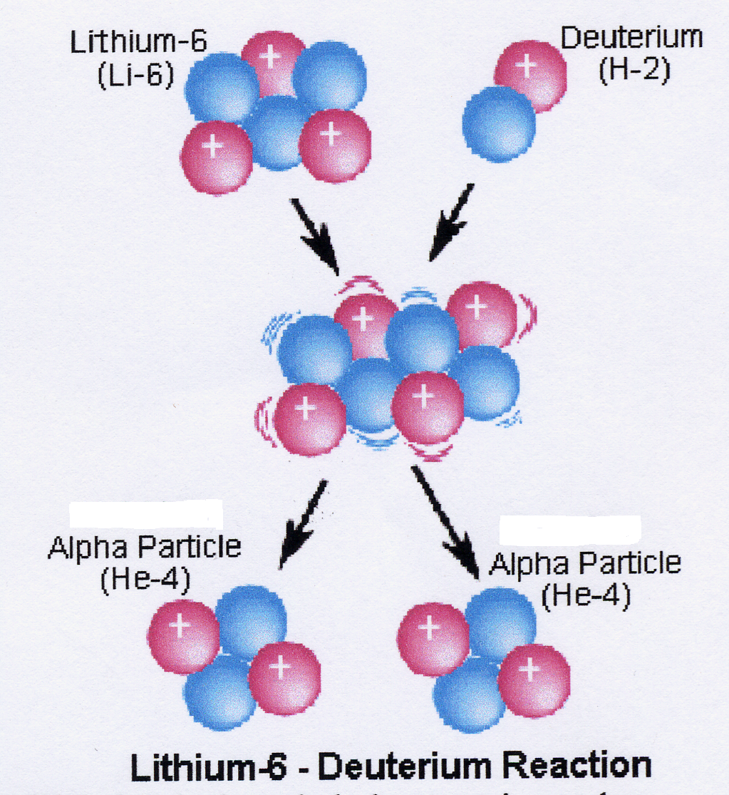 Pictorial view of nuclear reaction Li6+D